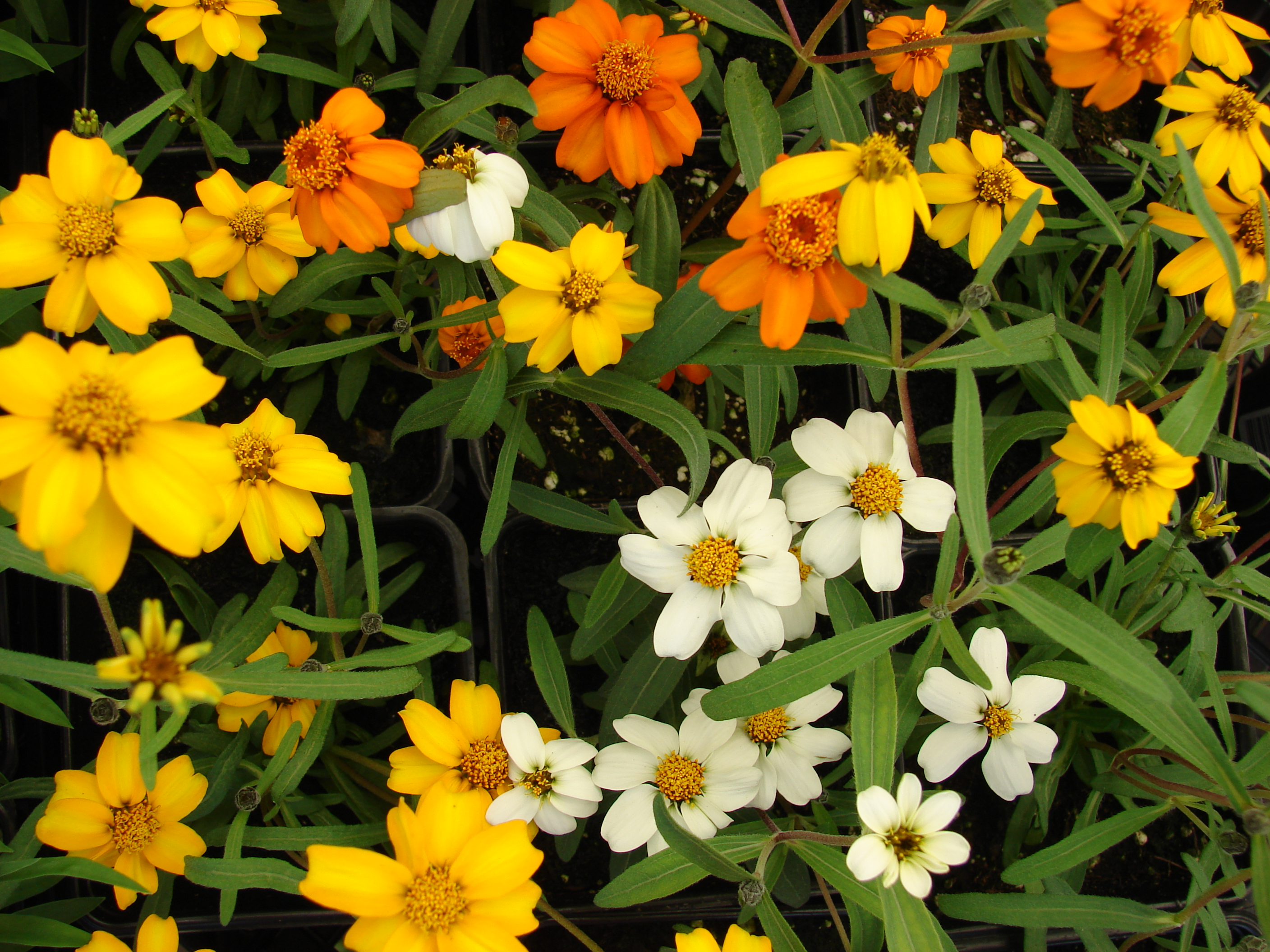 Zinnia sp. (flowers). Location: Maui, Walmart Kahului